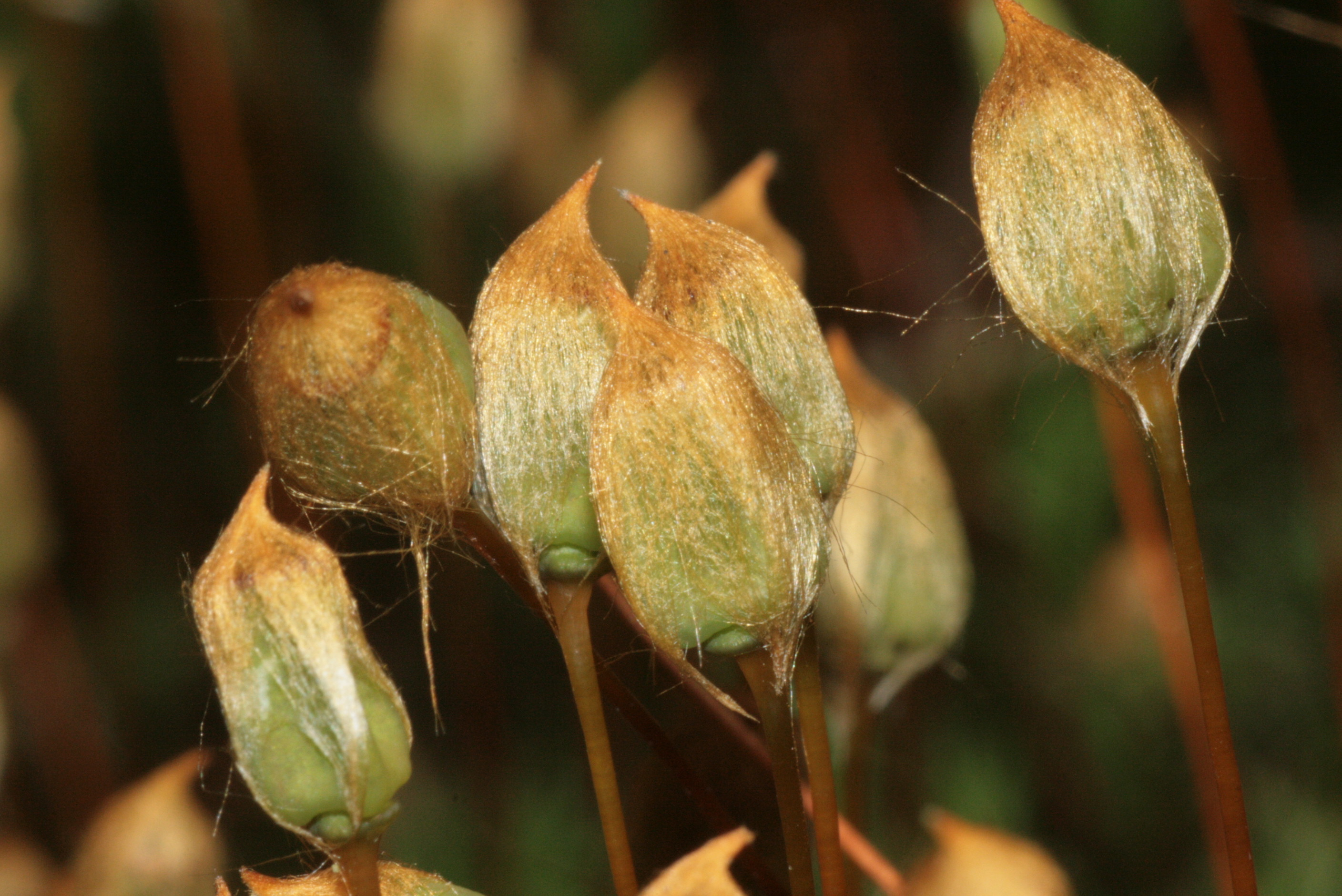 Polytrichum commune